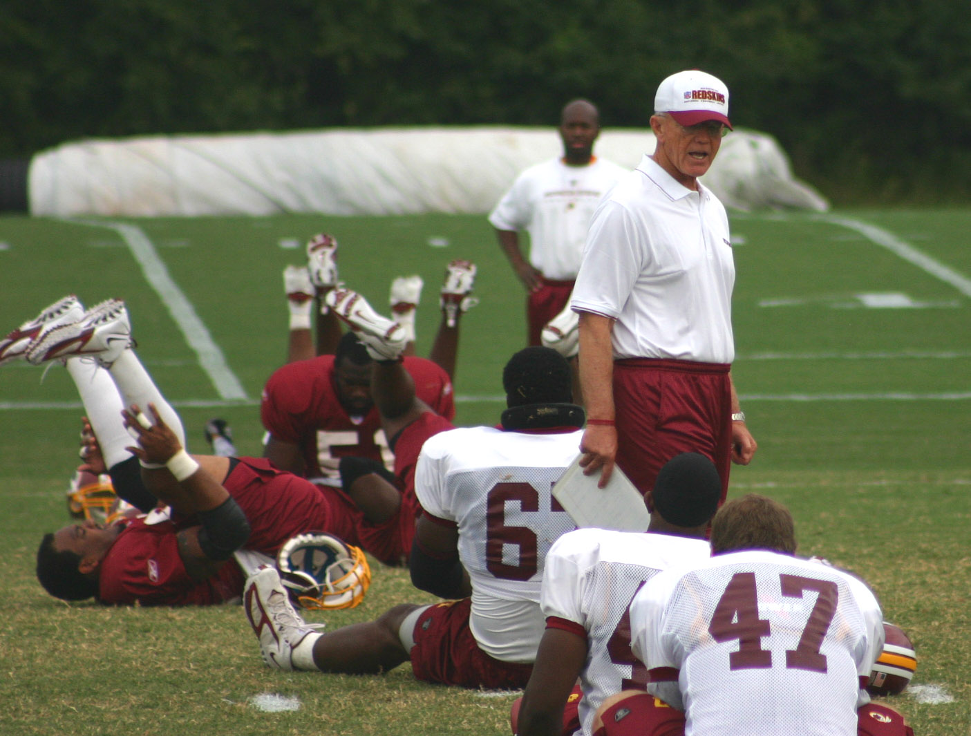 Joe Gibbs, professional football coach, at training camp for the Washington Redskins.